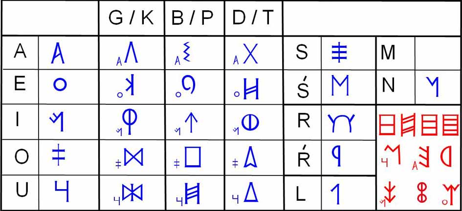 A tartessian (southwestern or southlusitanian) signary. Rodríguez Ramos 2000.